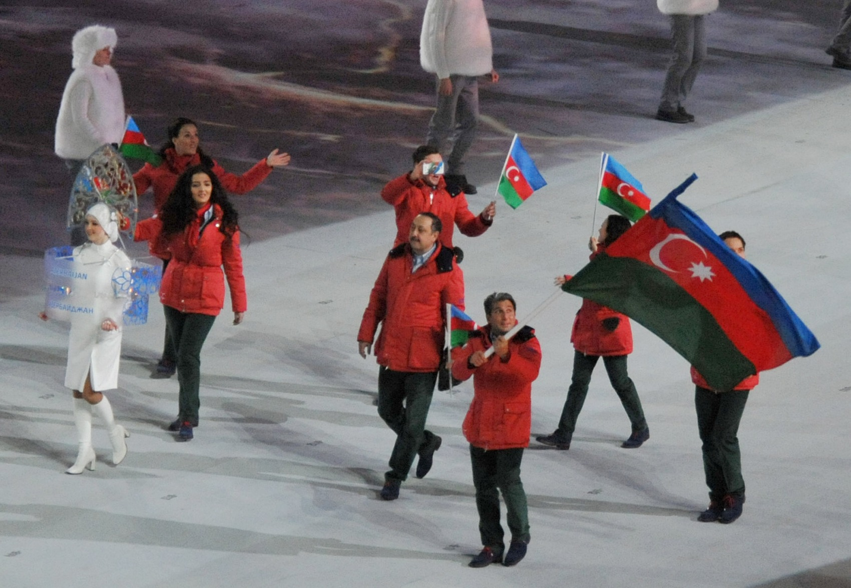 Azerbaijan at the Opening ceremony of the 2014 Winter Olympic Games